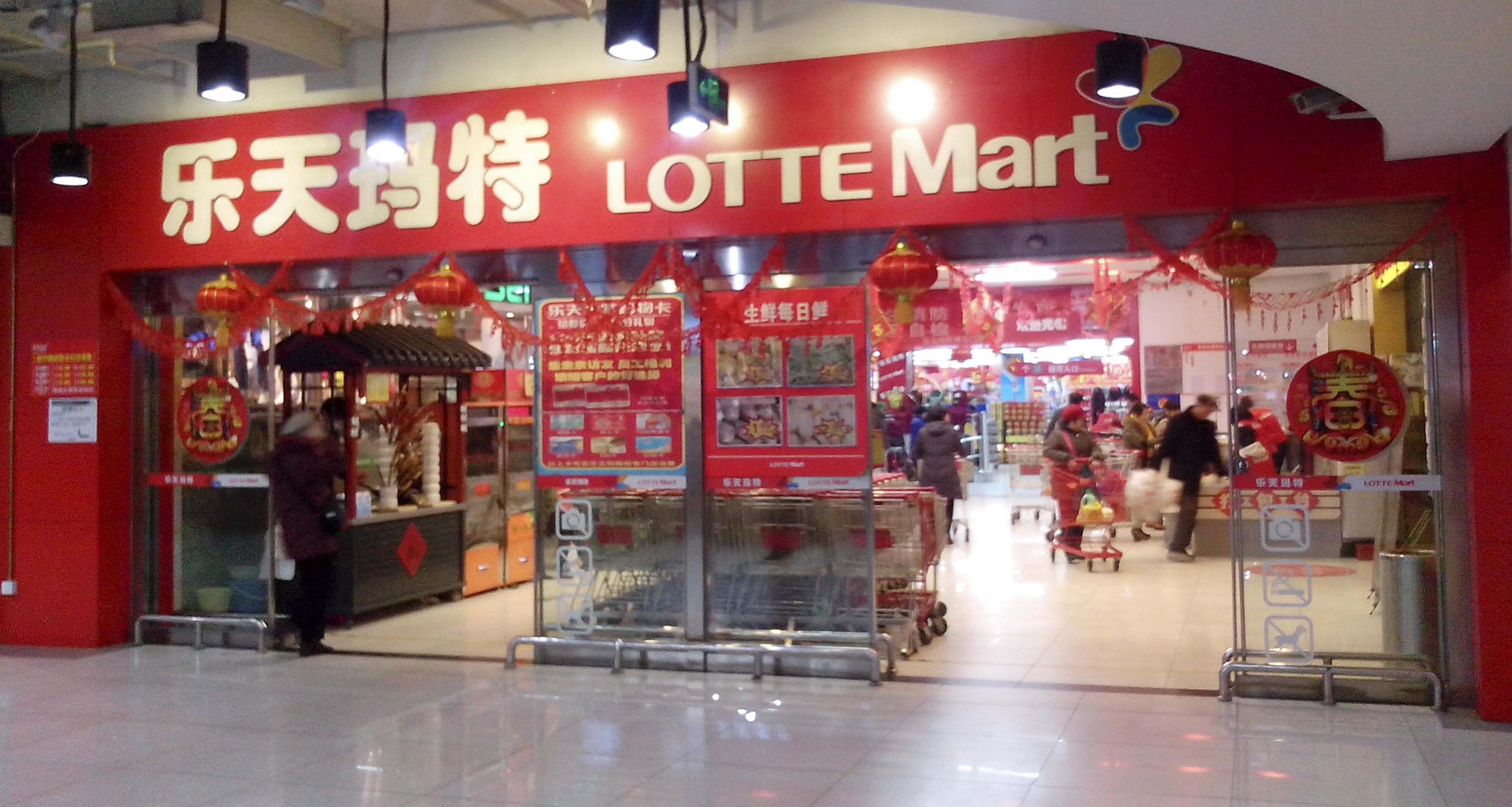 Lotte Mart,Beijing